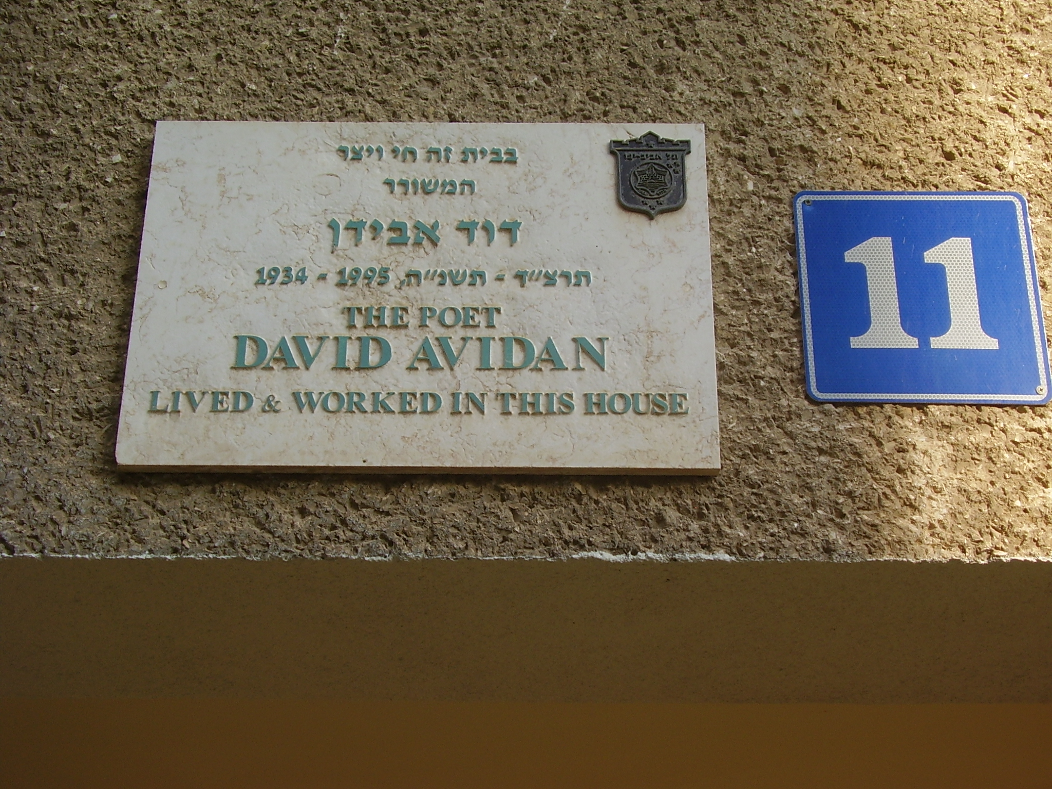 memorial plaque on the poet david avidan in tel aviv לוחית זיכרון על ביתו של המשורר דוד אבידן ברח' שמשון הגיבור 11 בתל אביב